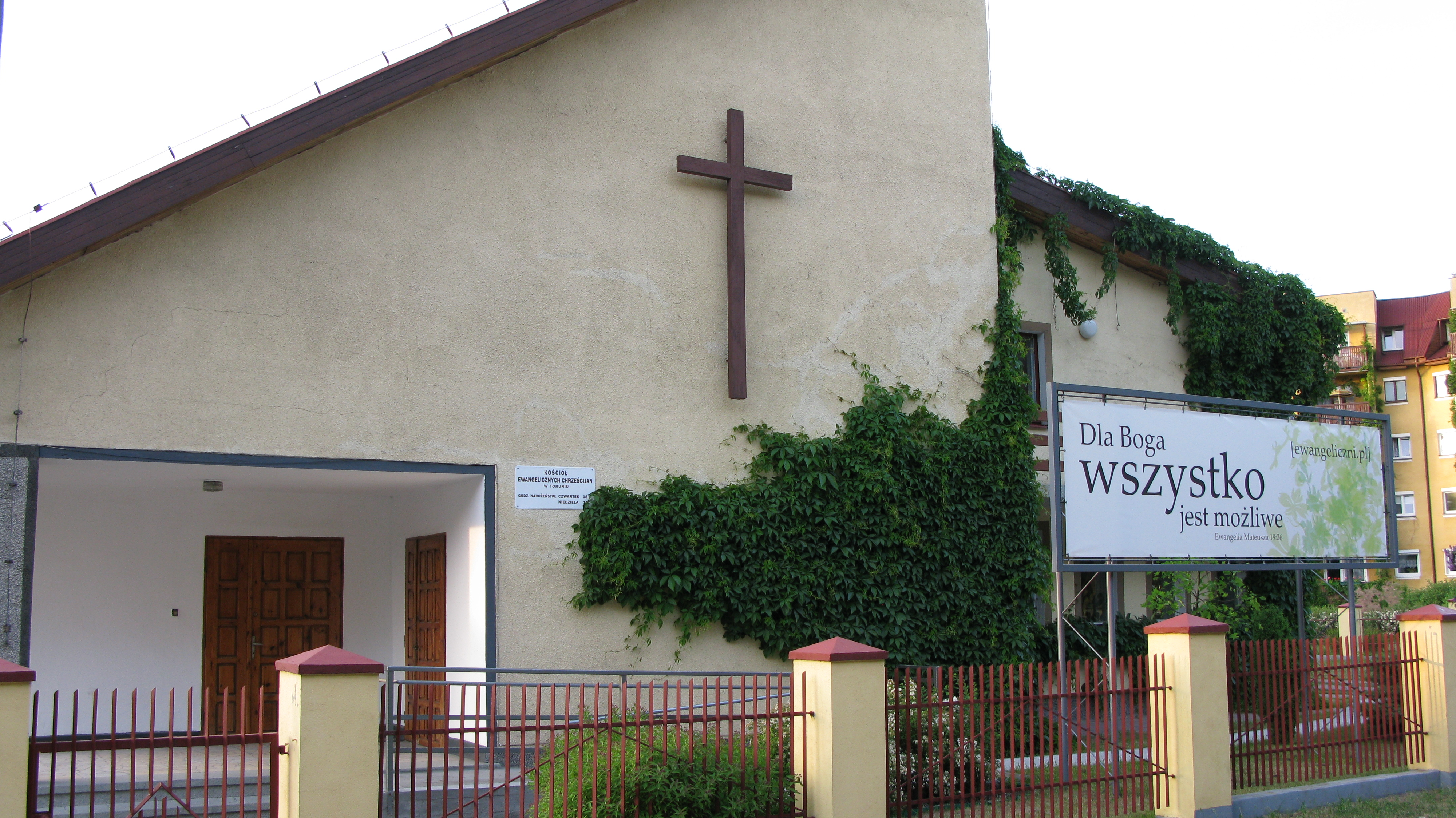 Chapel of the Evangelical Christians' Church in Torun, Poland